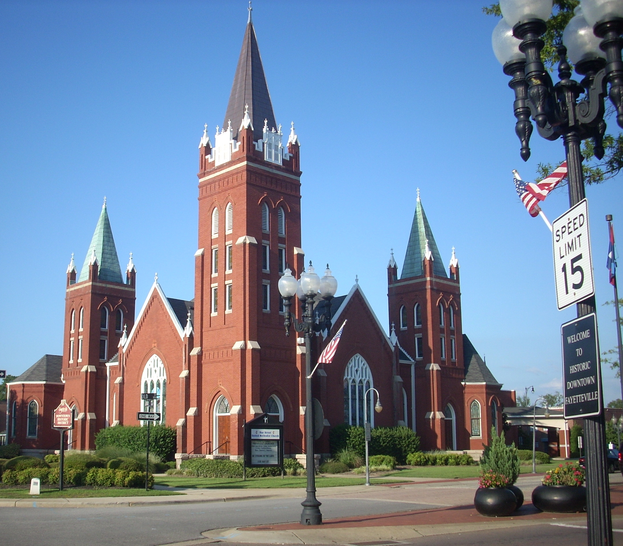 This church is located in downtown Fayetteville, North Carolina. Hay Street United Methodist Church was dedicated in June of 1835. It was the first Methodist church constructed in the city, and it is listed in the National Register of Historic Places.